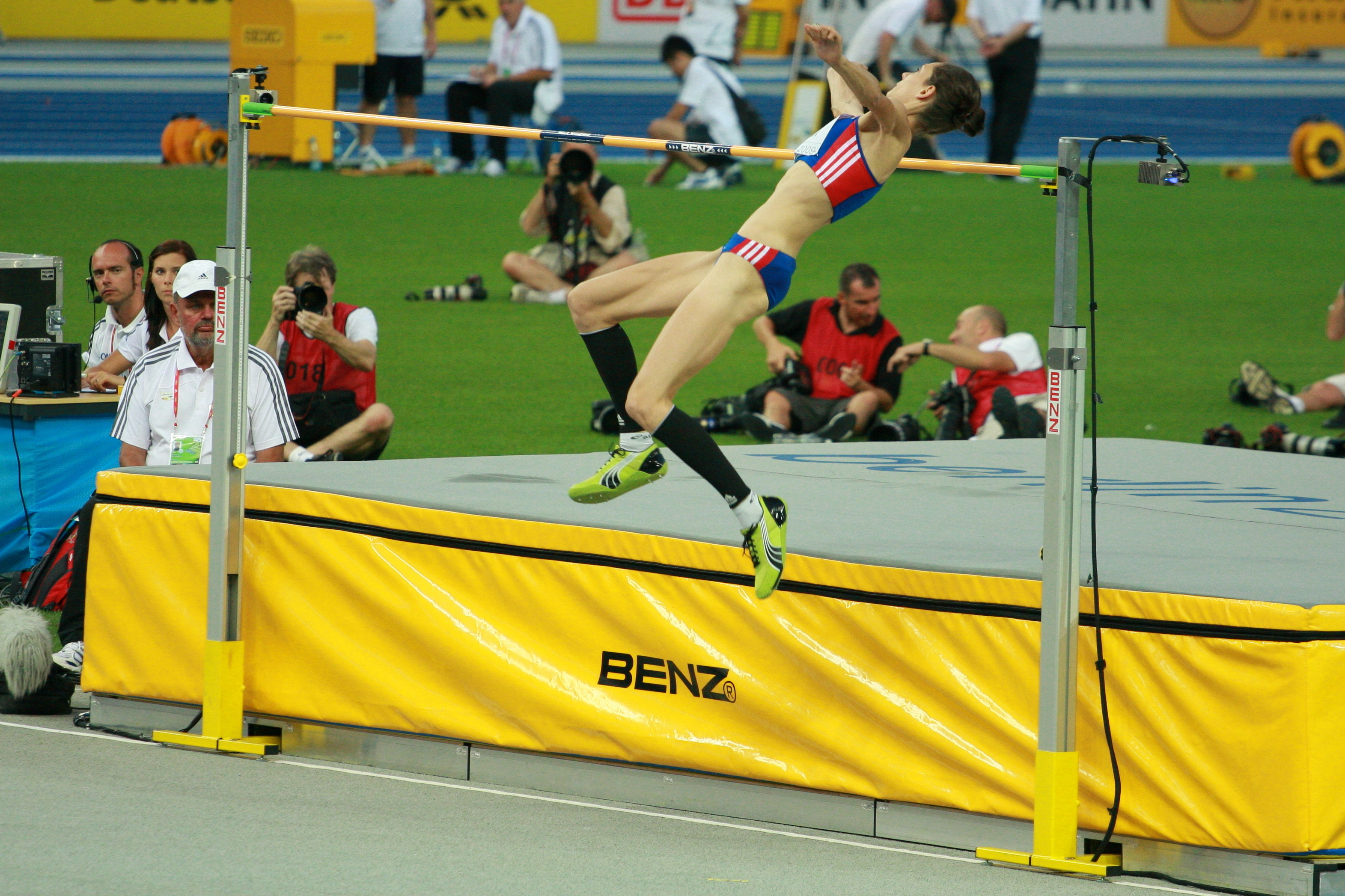 High Jump Final